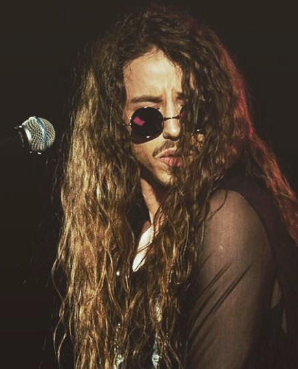 Polish singer, Michał Szpak during a concert in Minsk Mazowiecki